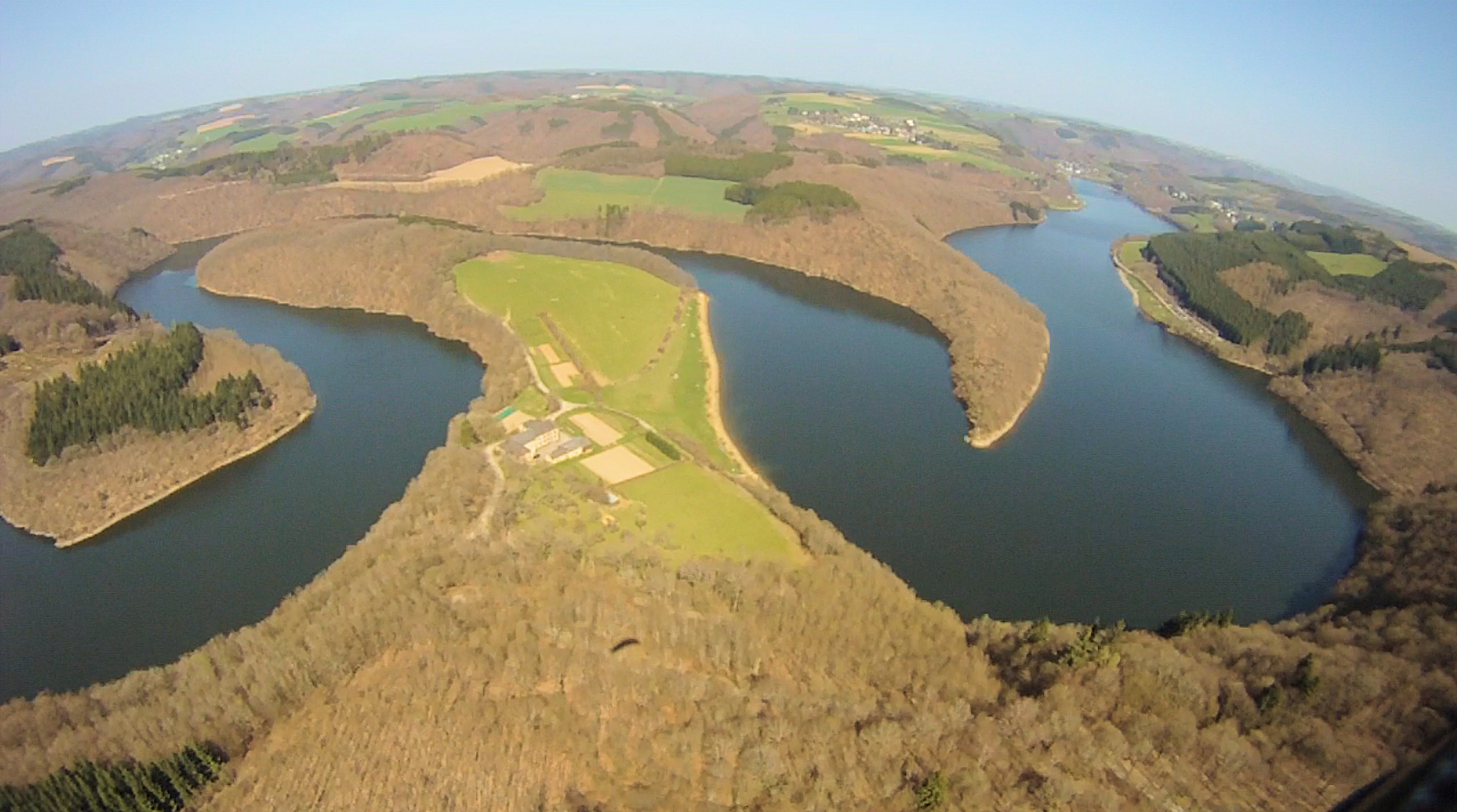 Aerial photo taken of the Stauséi Uewersauer (Lac de la Haute-Sûre, Upper-Sûre Lake) from a paramotor at an altitude of approx. 200m above ground level.